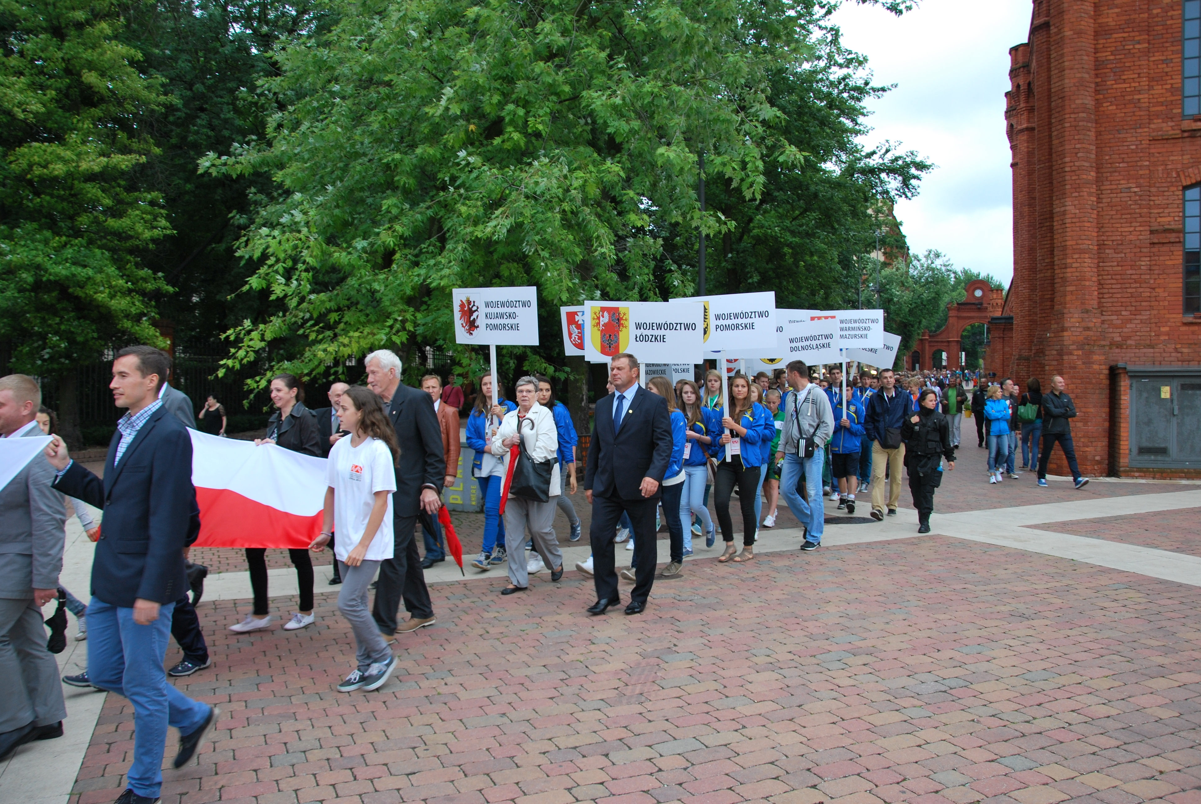 XIX National Youth Olympic Games in Summer Sports, Łódź 2013, opening ceremony